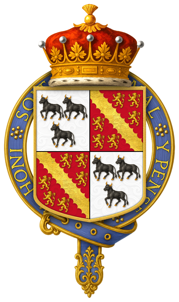 Shield of arms of Anthony Ashley-Cooper, 7th Earl of Shaftesbury, as displayed on his Order of the Garter stall plate, viz. quarterly 1st and 4th, argent three bulls passant sable armed and unguled or, for Ashley; 2nd and 3rd, gules a bend engrailed between six lions rampant or, for Cooper.